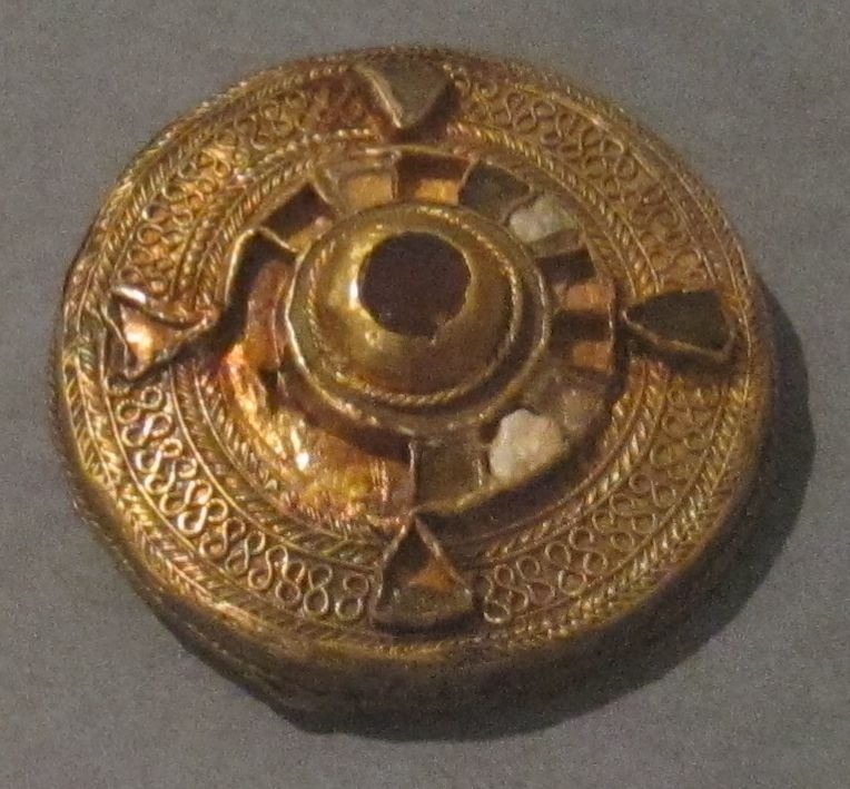 Burial object from an early middle age cemetery at the Bergsonstraße in Munich-Aubing, Germany (5th - 7th century AD). Photographed at an exhibition of the "Förderverein 1000 Jahre Aubing e.V." at the occasion of 1000 year celebrations of Aubing in April 2010. Golden garment closure.